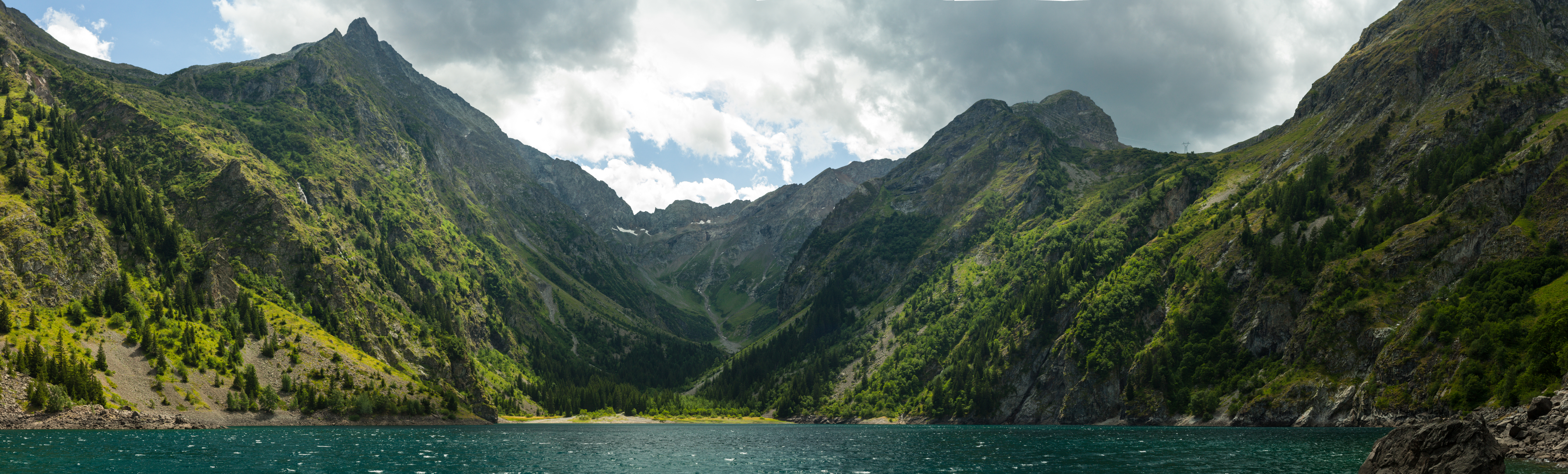 A Panorama of Lac du Lauvitel